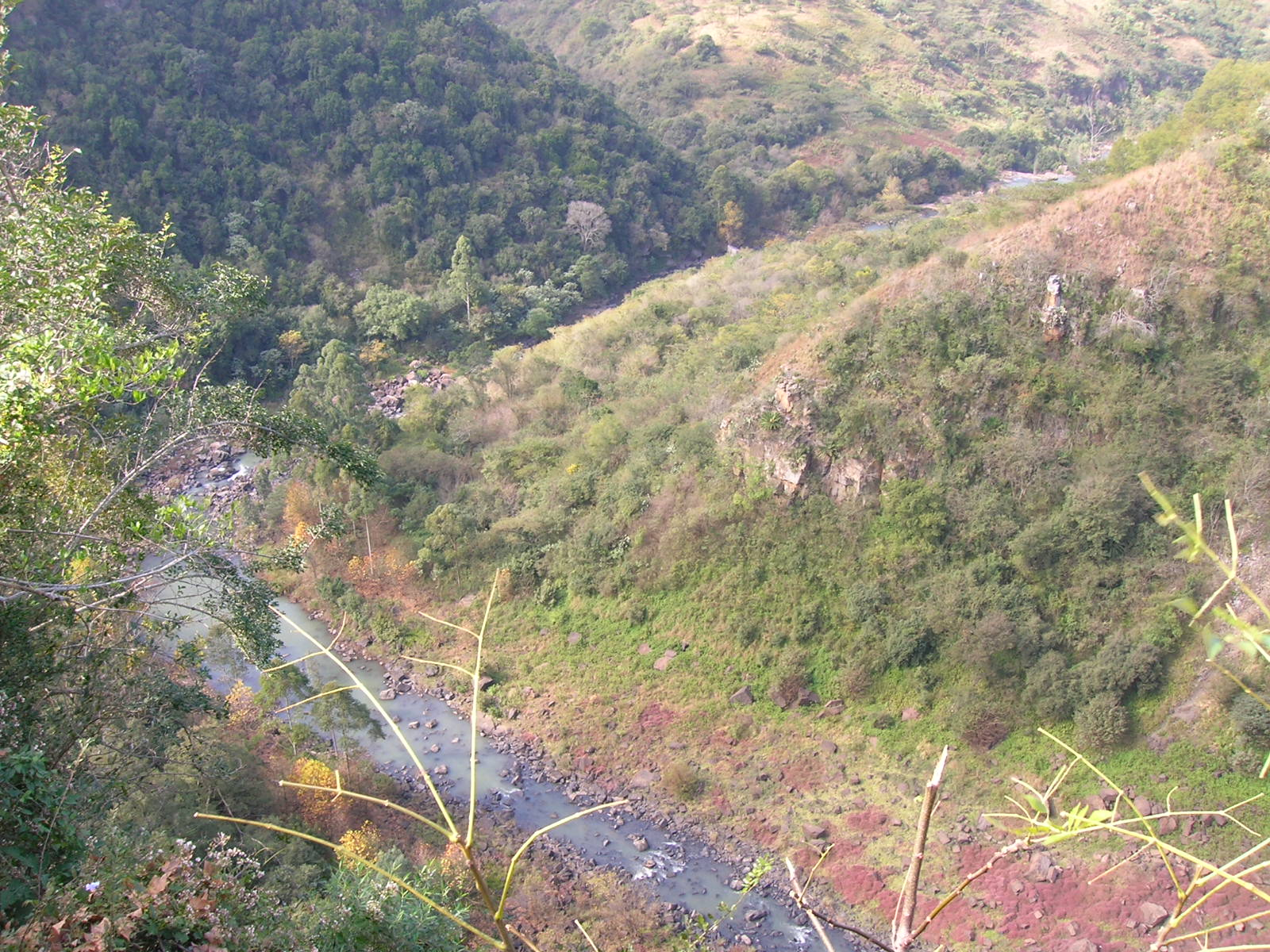 A view of the Mngeni River, just below Howick Falls, in KwaZulu-Natal, Pietermaritzburg.